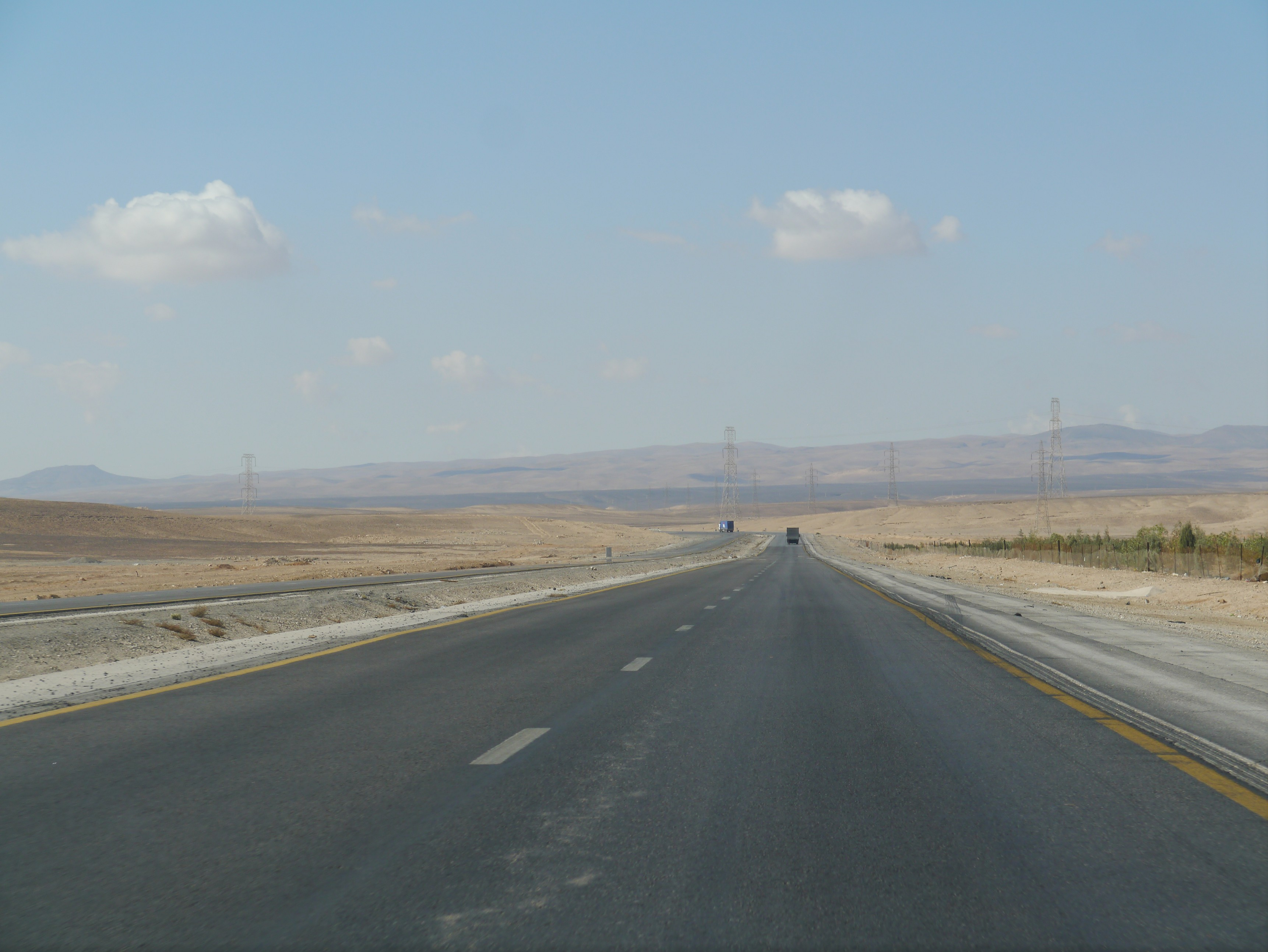 along Desert Highway, Southern Jordan